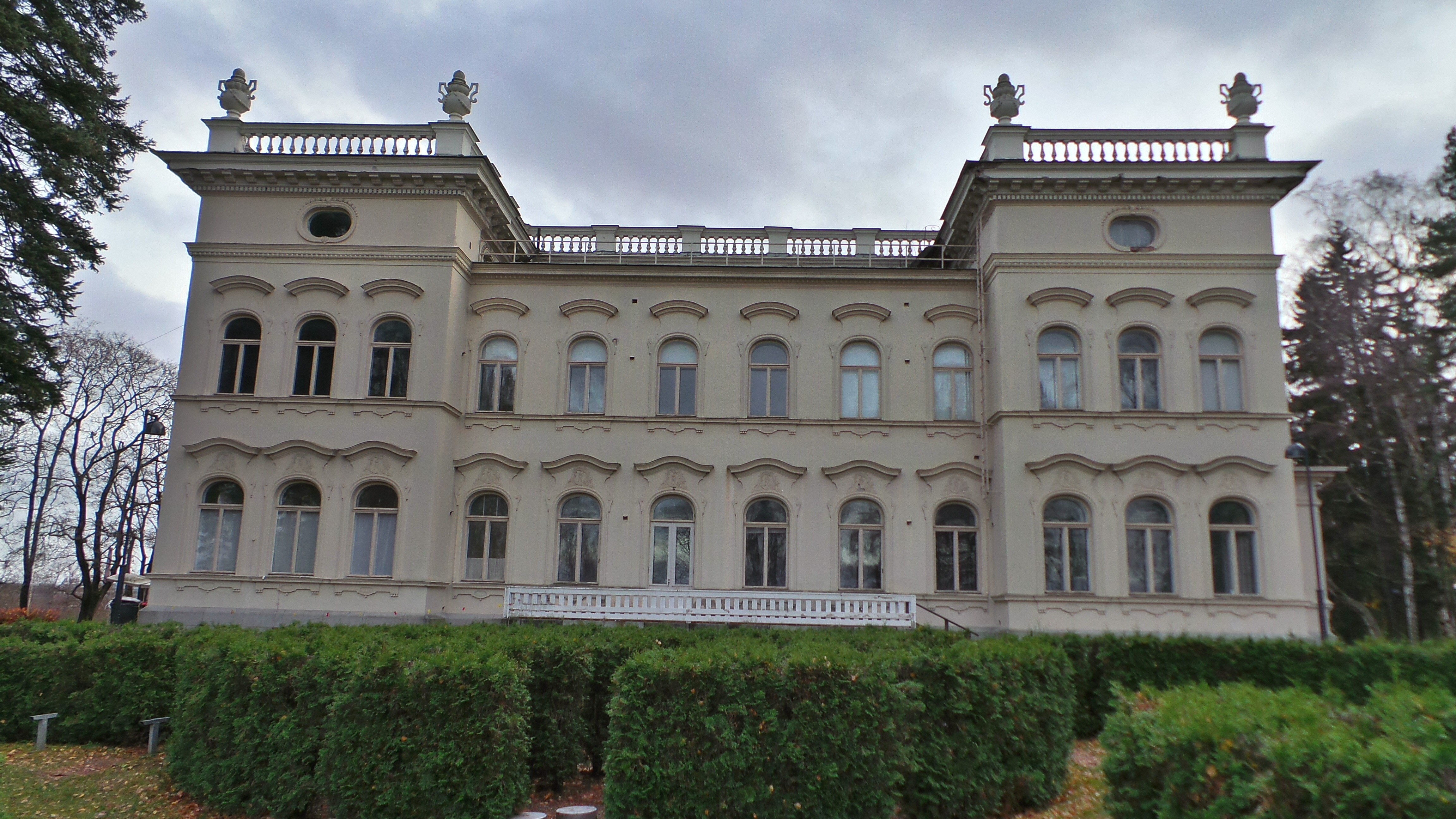 Hämeen museo